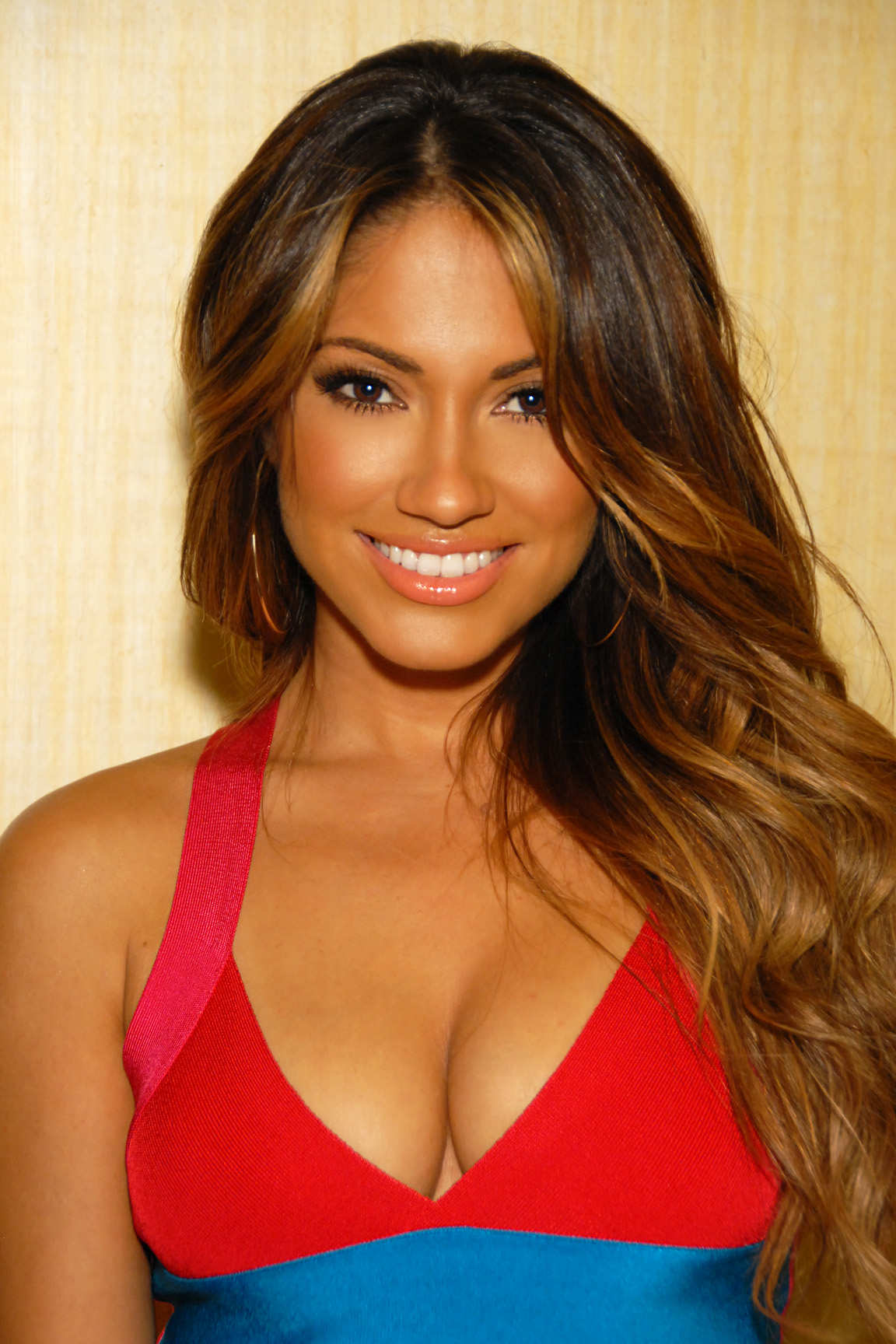 Jessica Burciaga, Los Angeles, CA on October 1, 2011 - Photo by Glenn Francis of